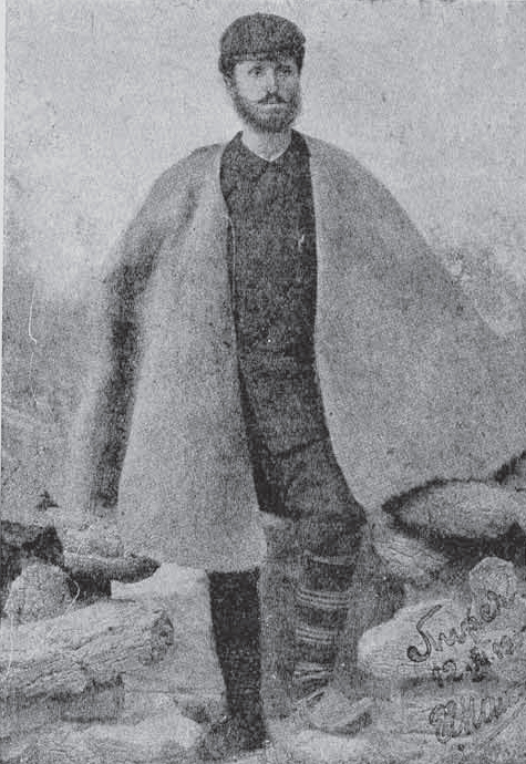 Hristo Nastev in PIreya